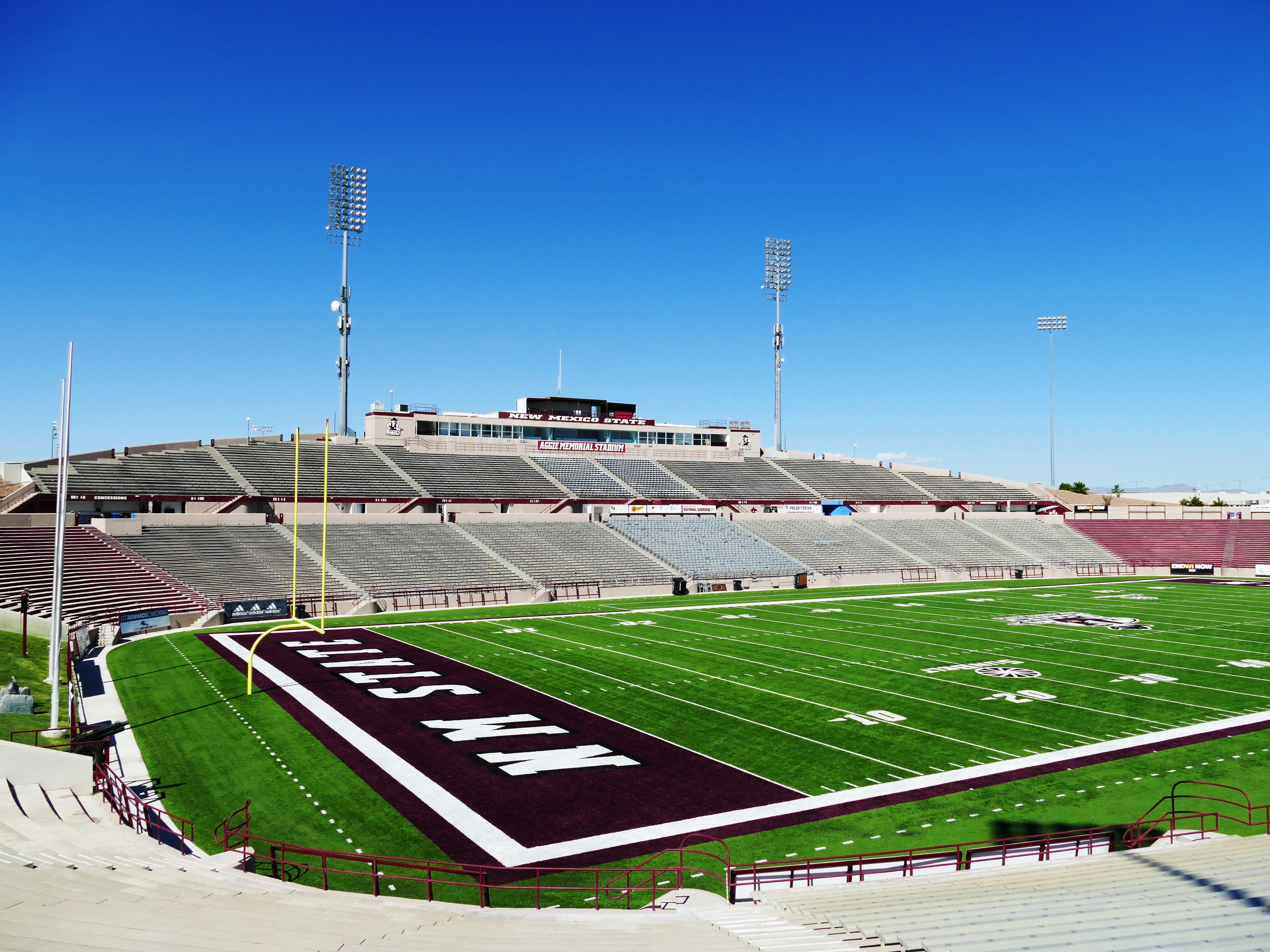 Aggie Memorial Stadium - West Side Stands & Press Box